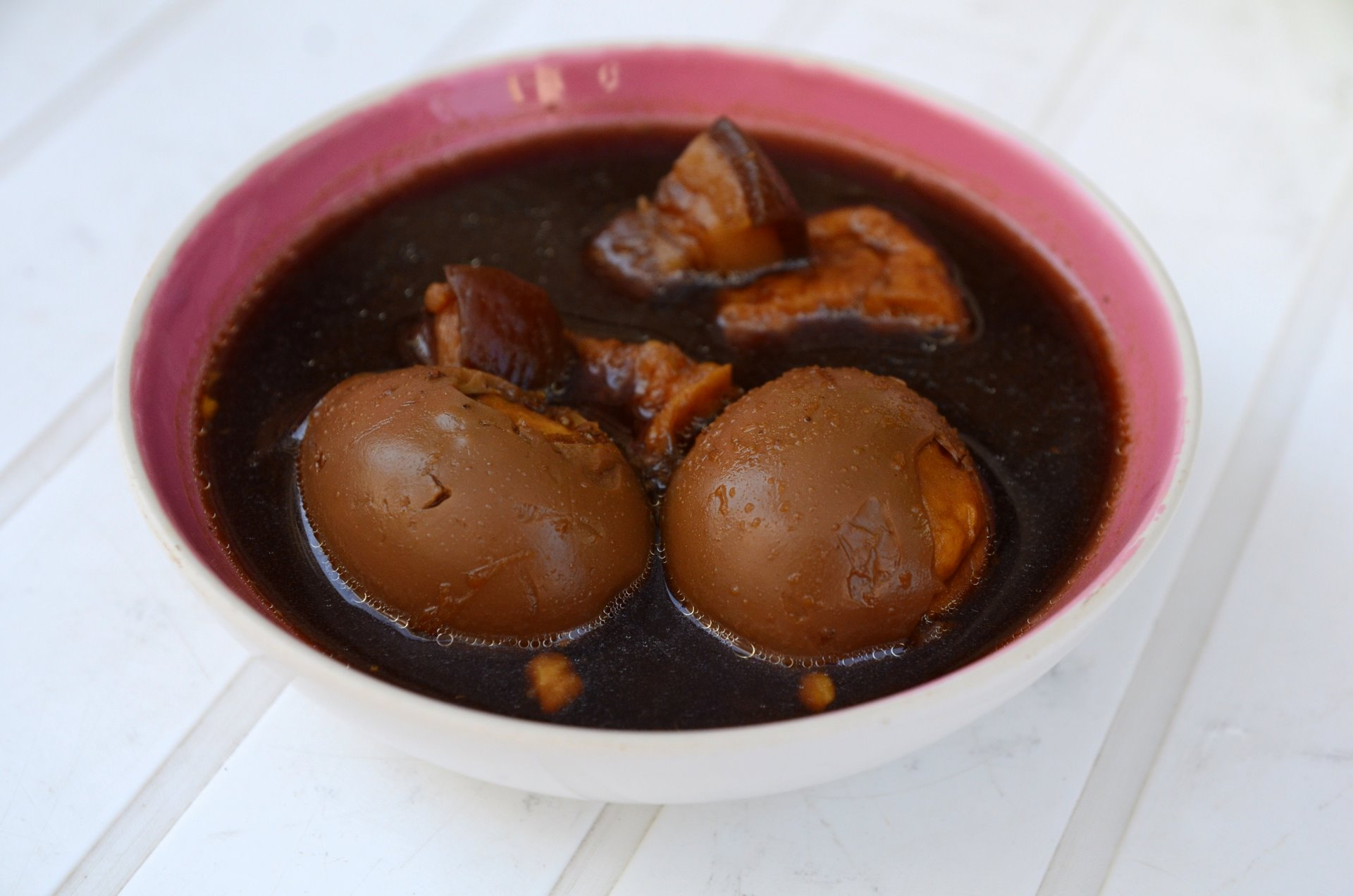 Khai phalo (Thai script: ไข่พะโล้) are eggs stewed with meat in soy sauce, garlic, ginger and phong phalo (Thai script: ผงพะโล้; five-spice powder). Meats used in khai phalo tend to be pork or chicken wings. Other ingredients, such as mushrooms and fried tofu, can also be incorporated. The dish is of Chinese origin. Similar dishes are mu phalo and kha mu phalo (using only pork, and ham hocks), kai phalo (chicken) and pet phalo (duck).